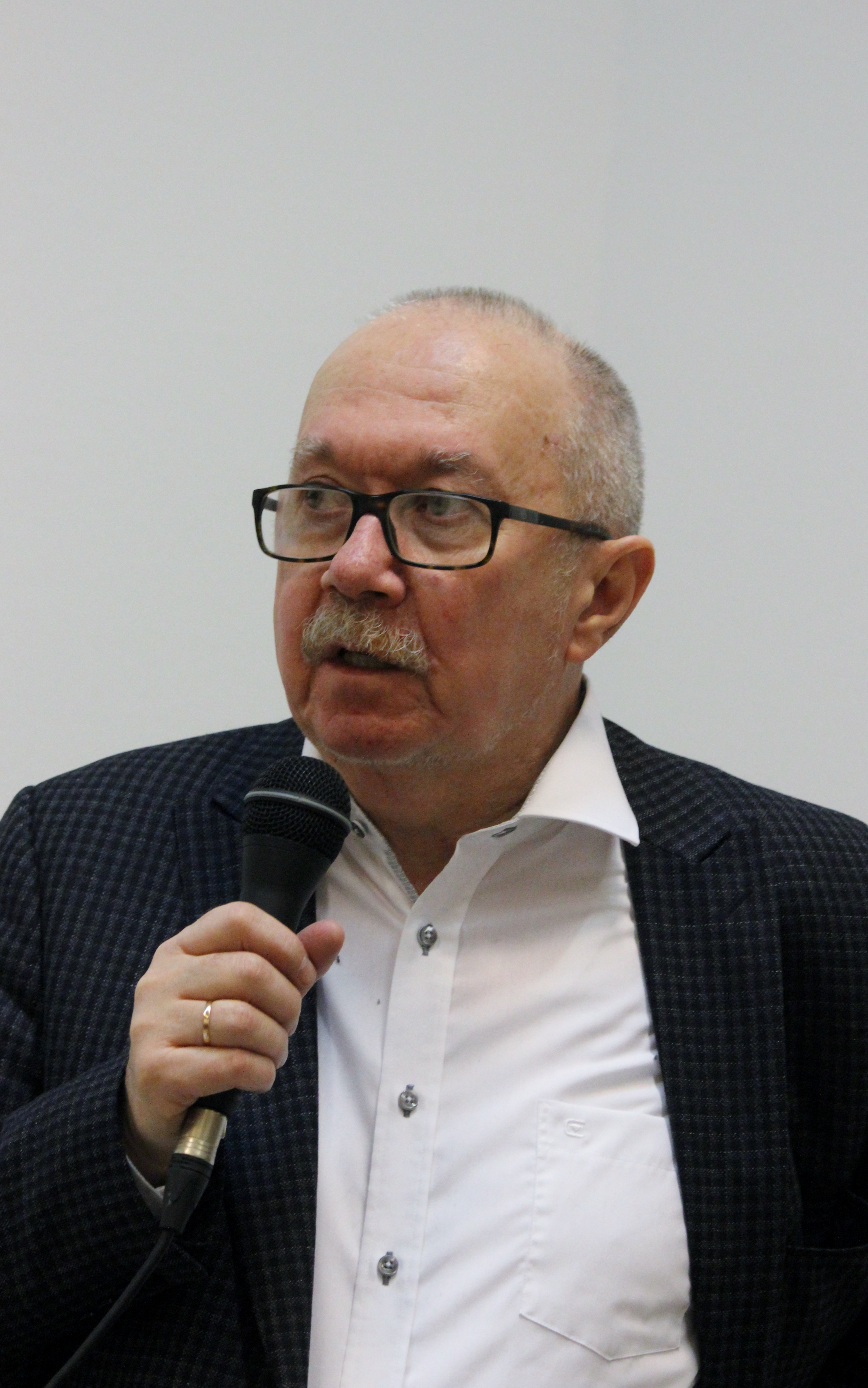 Russian writer Denis Dragunsky at the 20 Moscow International Fair Non/fiction 2018